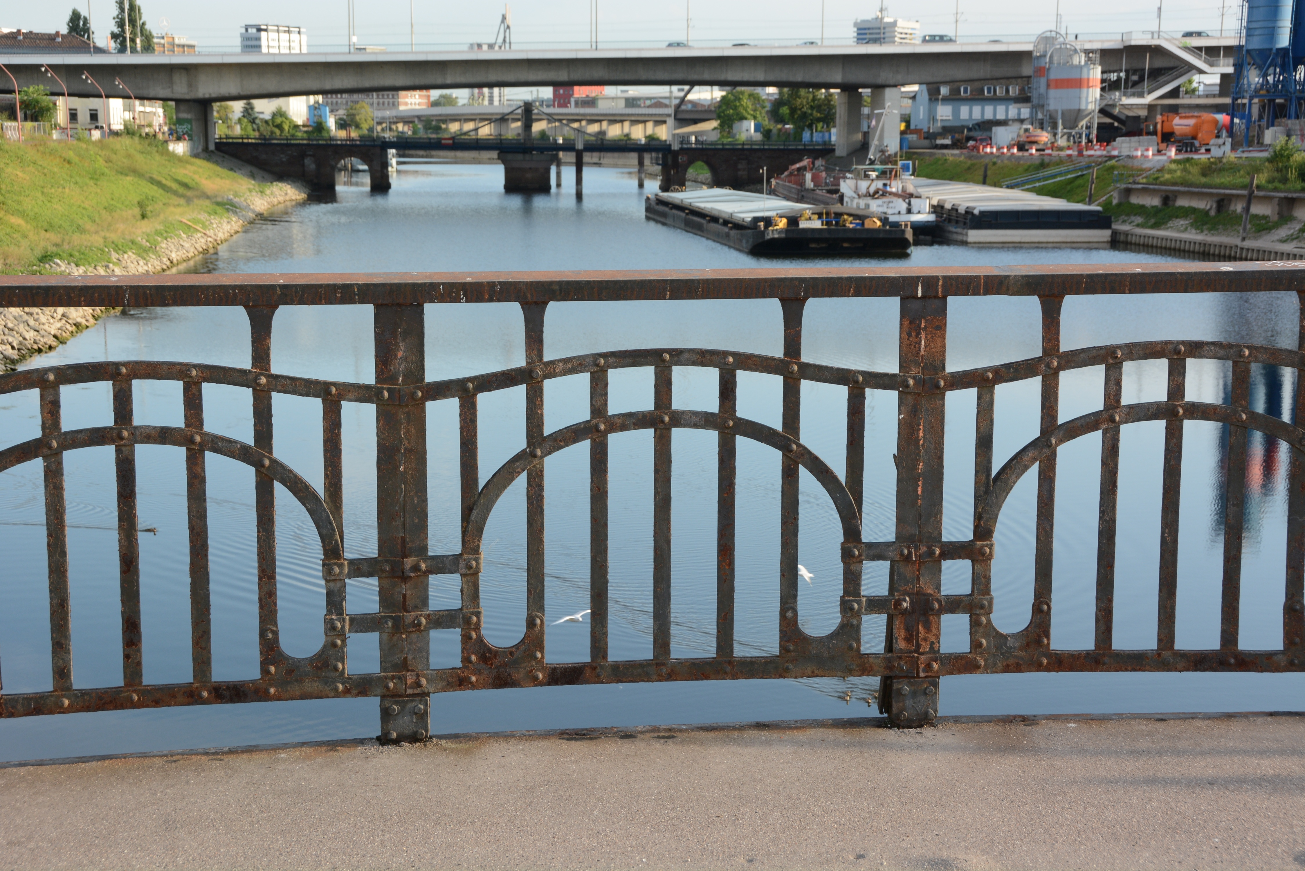 Teufelsbrücke ("Devil's Bridge"), Mannheim - railing 2013